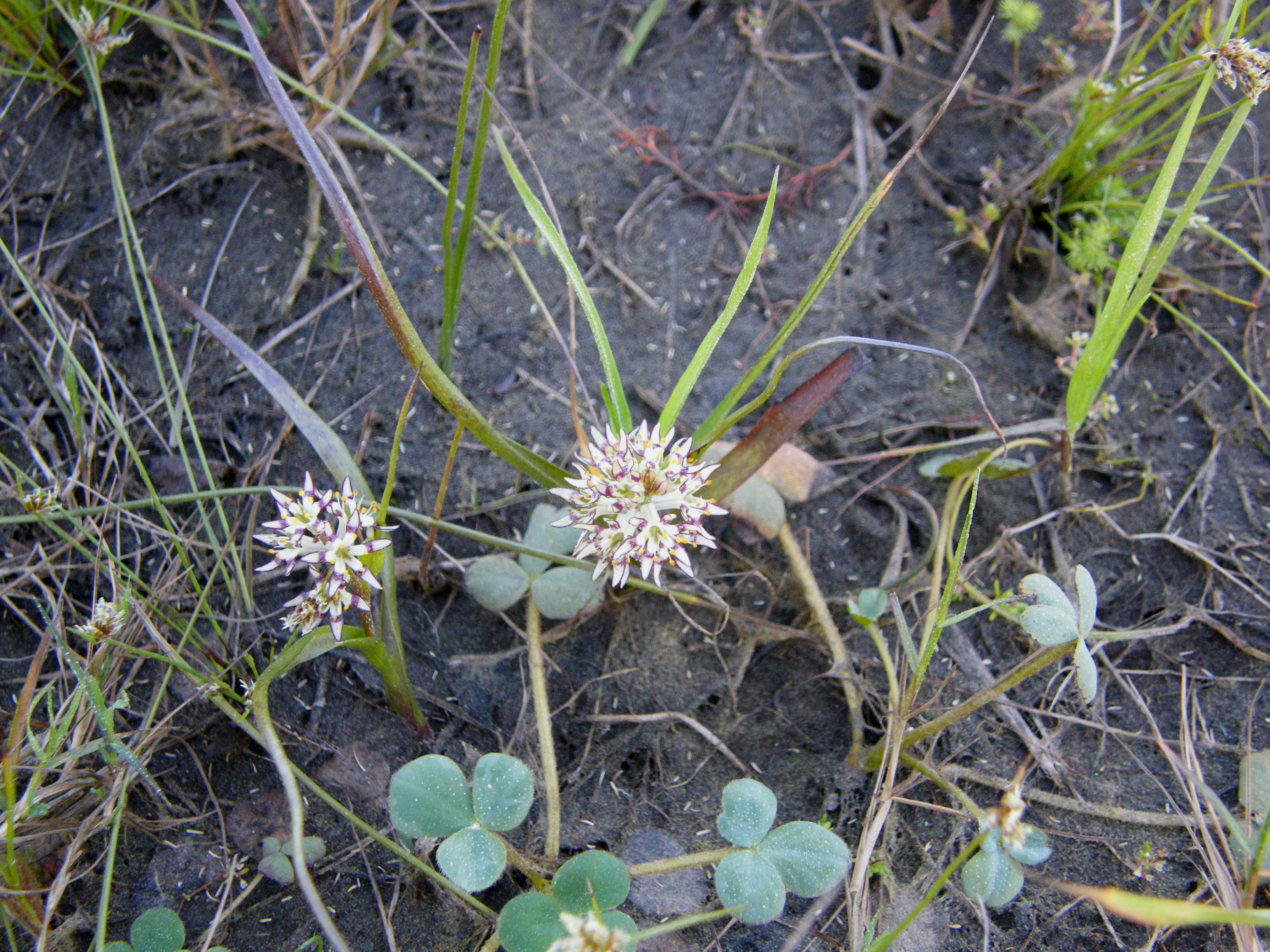 Wurmbea inusta